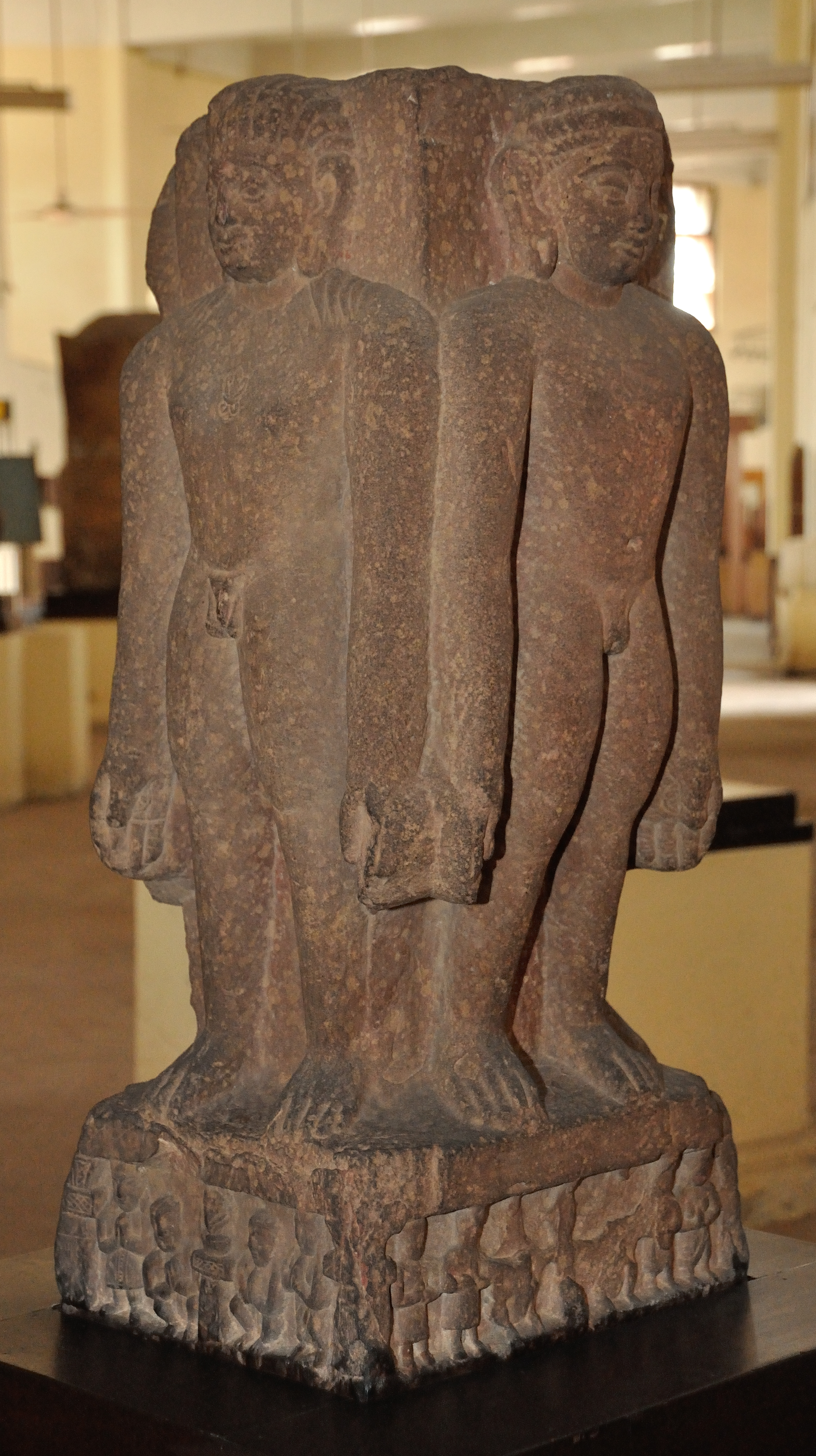 This artefact resides at the Government Museum, (hi: Rashtriya Sangrahalaya) formerly The Curzon Museum of Archaeology, Museum Road or Murari Lal Rajpal road, Dampier Nagar, Mathura, Uttar Pradesh, India. This museum is administrating by the State Government of Uttar Pradesh of India.